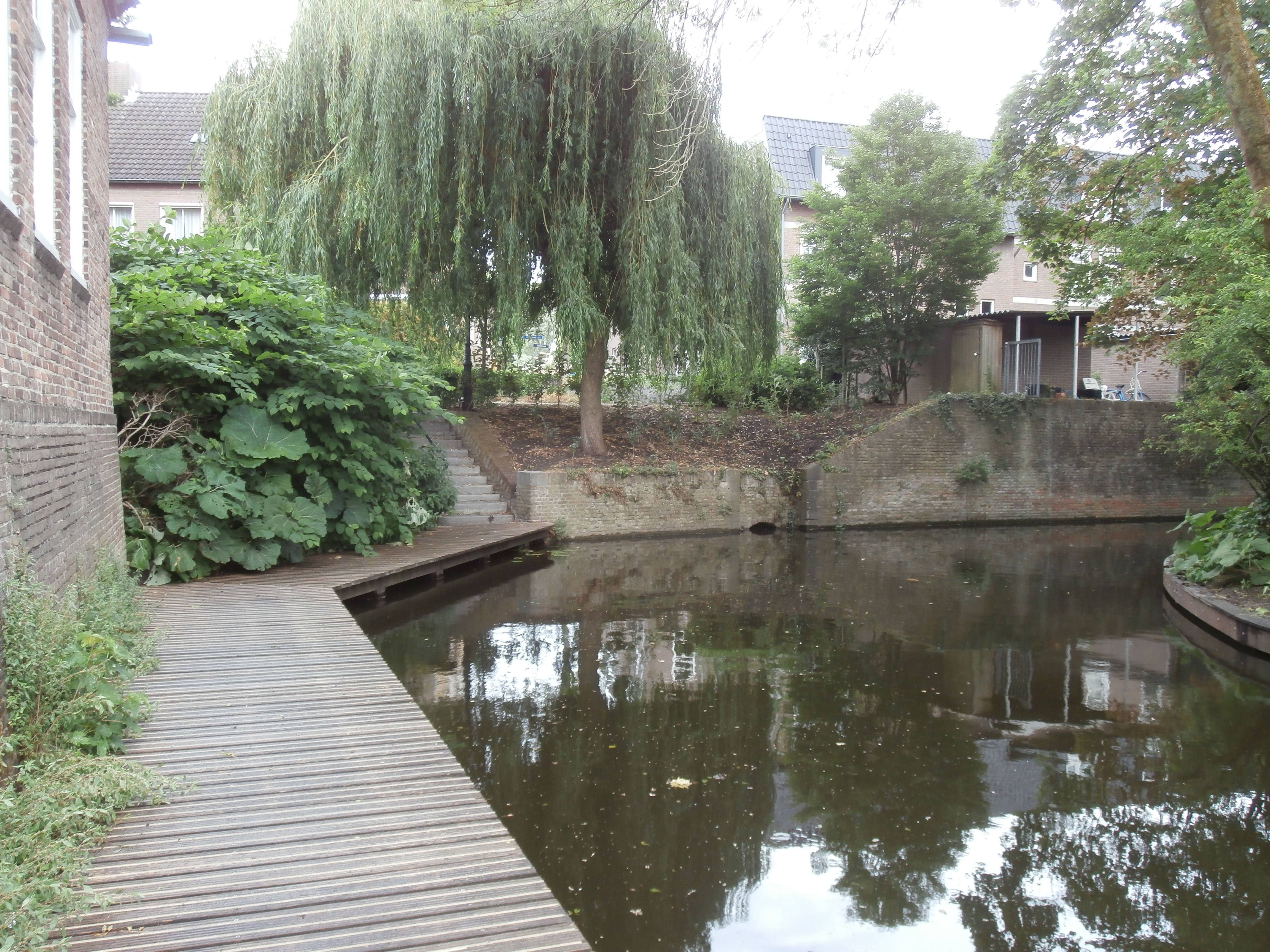 View from Groote Stroom towards the filled up Doode Stroom. A culvert is visible.